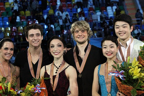 Tessa VIRTUE / Scott MOIR, Meryl DAVIS / Charlie WHITE and Maia SHIBUTANI / Alex SHIBUTANI at the 2011 World Figure Skating Championships